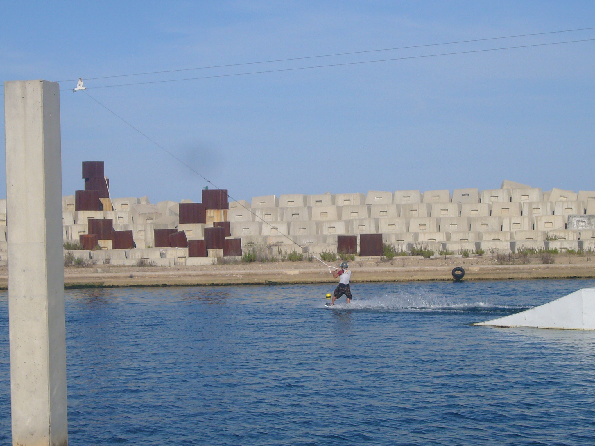 Water-ski at El Parc del Fòrum, Barcelona